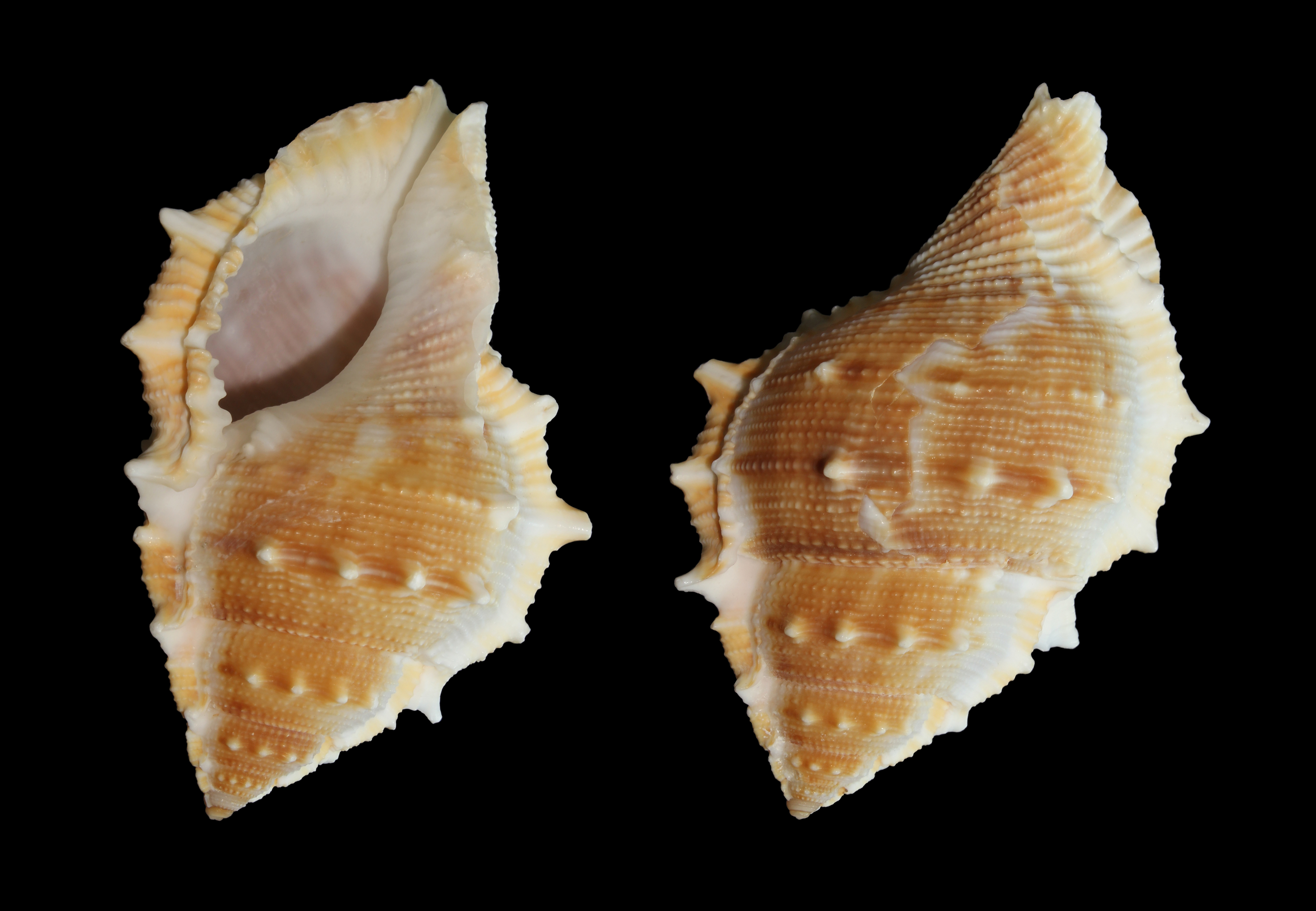 Near-elegant Frog Shell Bufonaria perelegans. Shell length 83 mm.